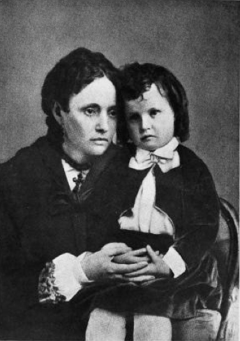 Rebecca Evans Buffum and Asa Mansfield Buffum, wife and son of William Mansfield Buffum